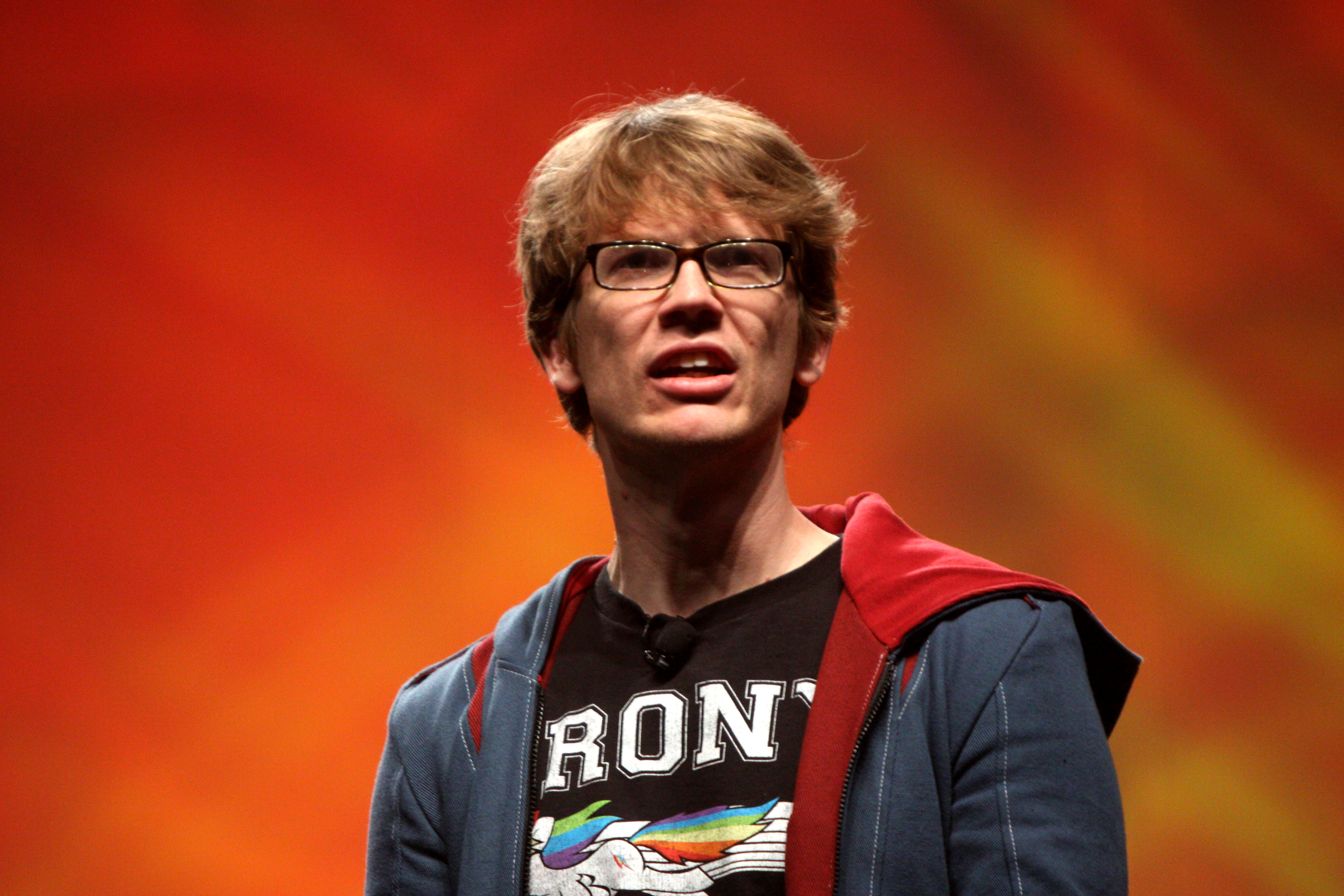 Hank Green speaking at VidCon 2012 at the Anaheim Convention Center in Anaheim, California.